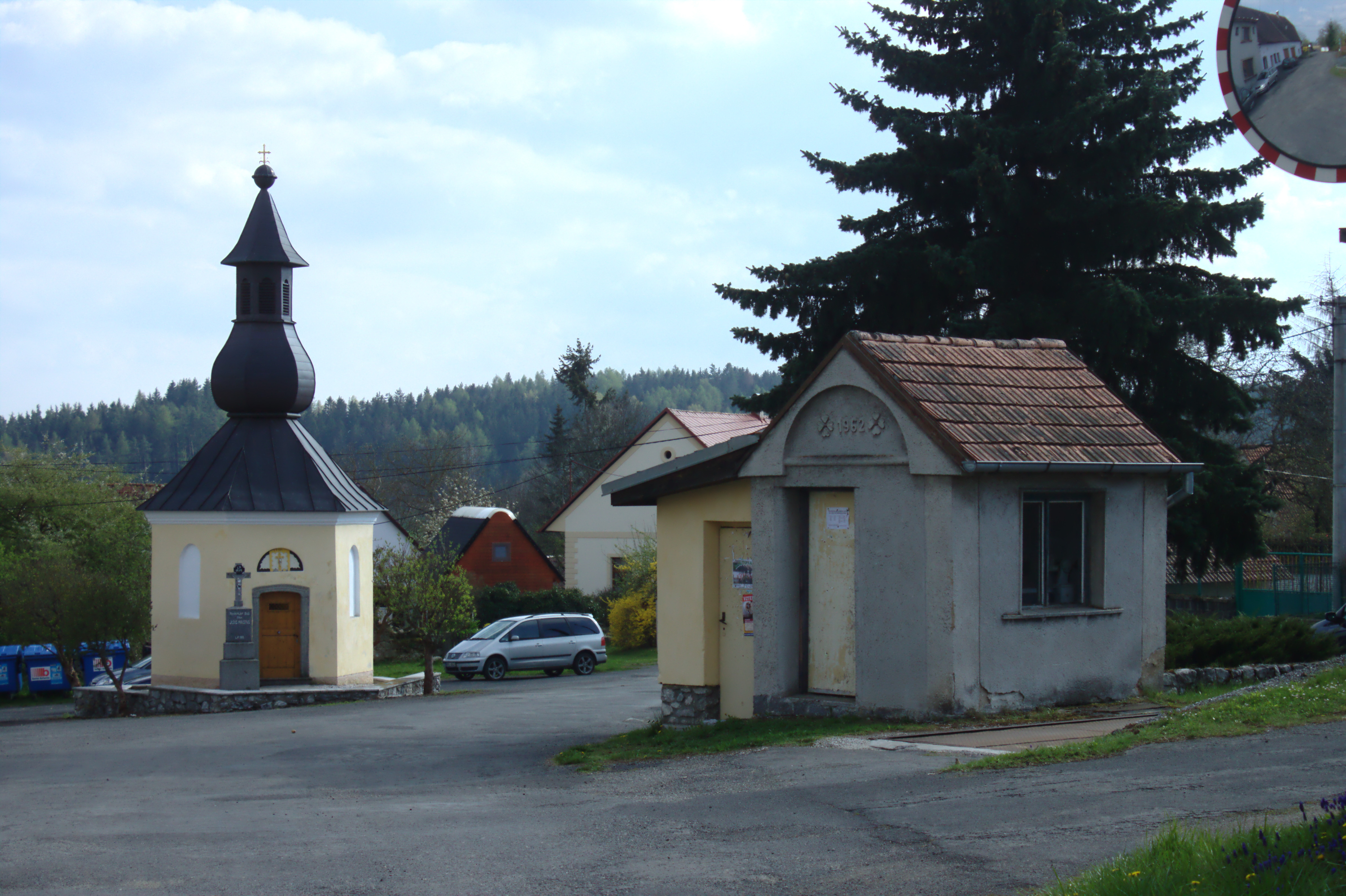 A common in the village of Letovy near Nalžovské Hory, Plzeň Region, CZ